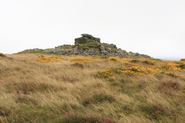 Corndon Tor A minor outcrop at the southern end of Corndon Down.